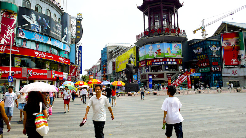 walking street in changsha